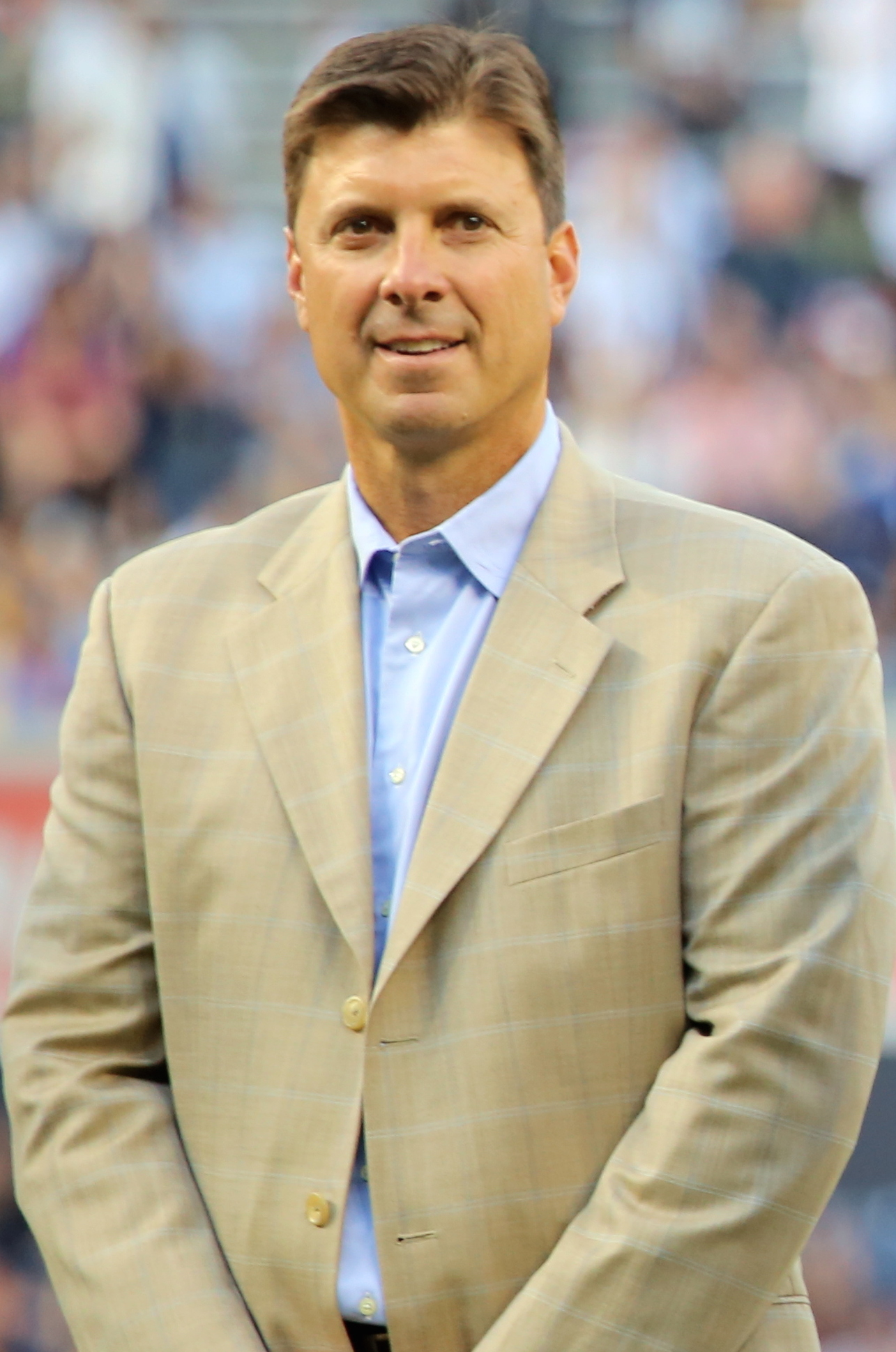 Tino Martinez, Paul O'Neill and Joe Torre in the house for Bernie Williams Day.